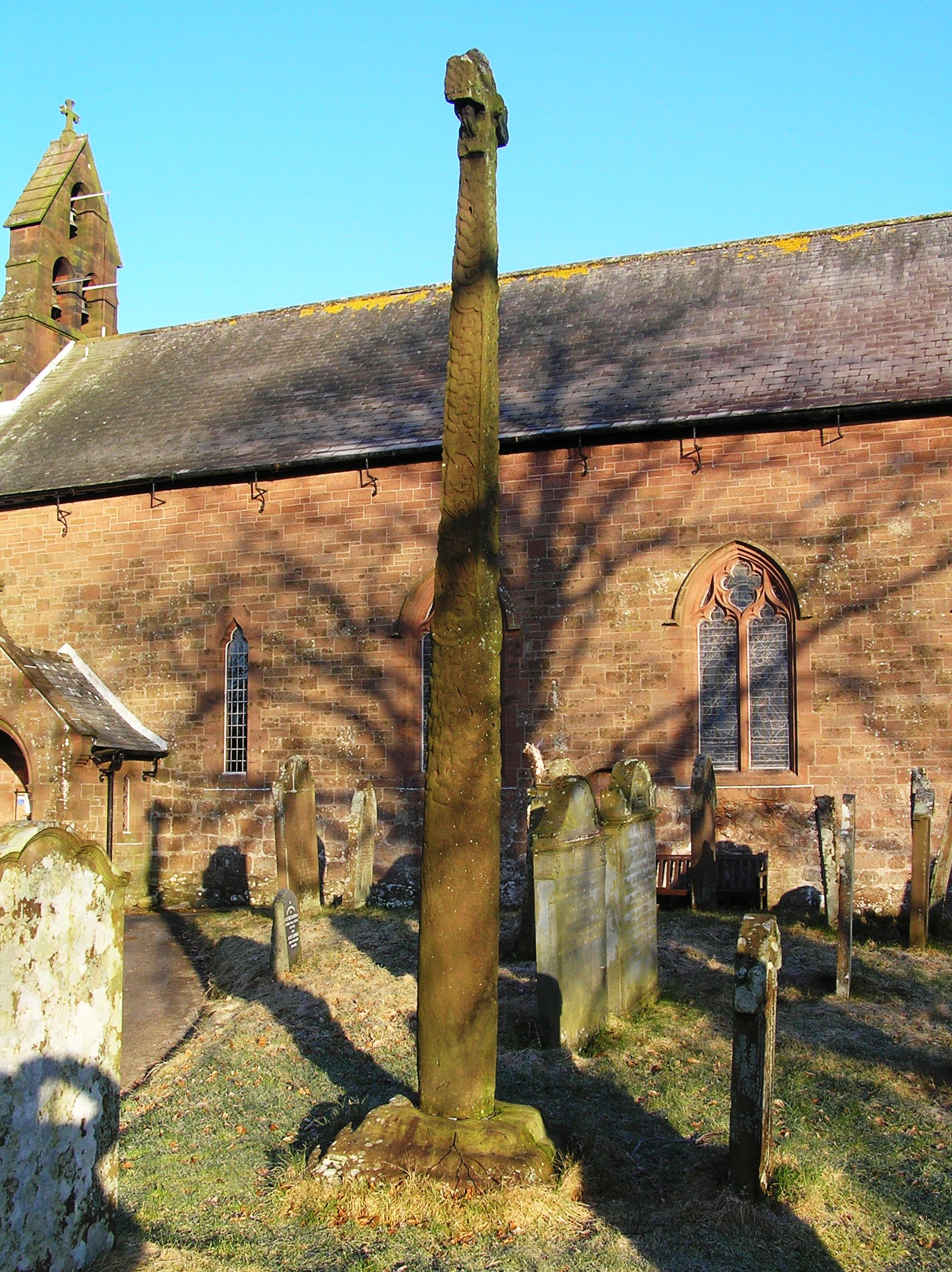 View of the Viking Cross at Gosforth Cumbia, from the SW